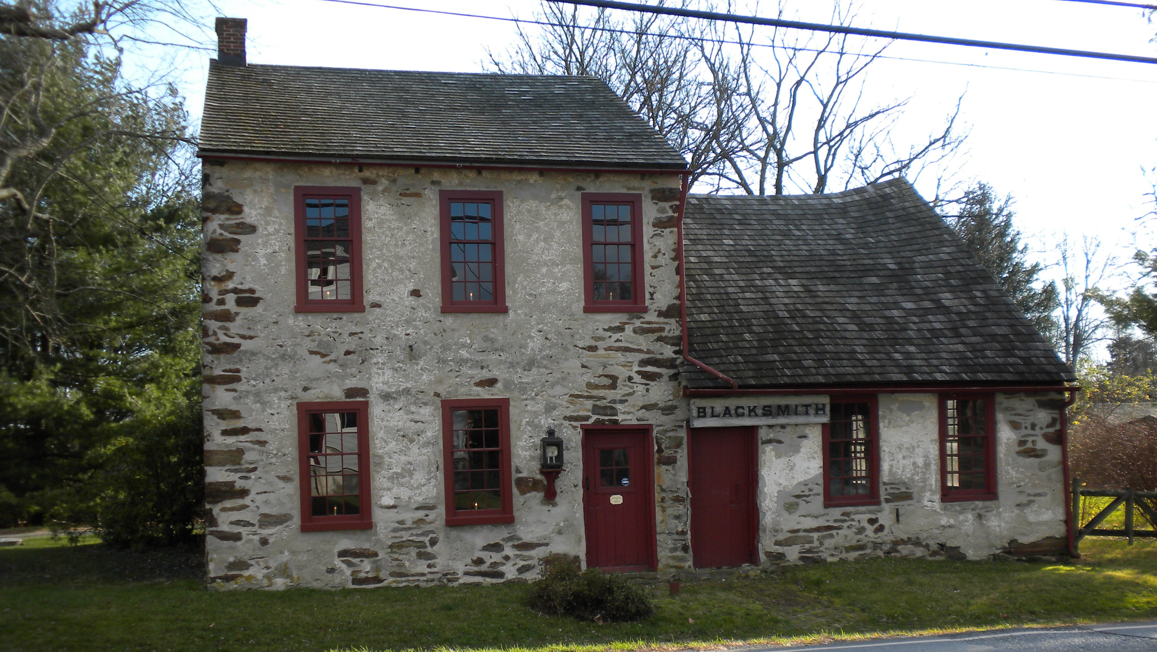 Blacksmith shop in the Historic District (NRHP) of Marshallton, Chester County, PA. On Strassburg Road near Telegraph Rd. This photo is my own work and I donate it to the public domain